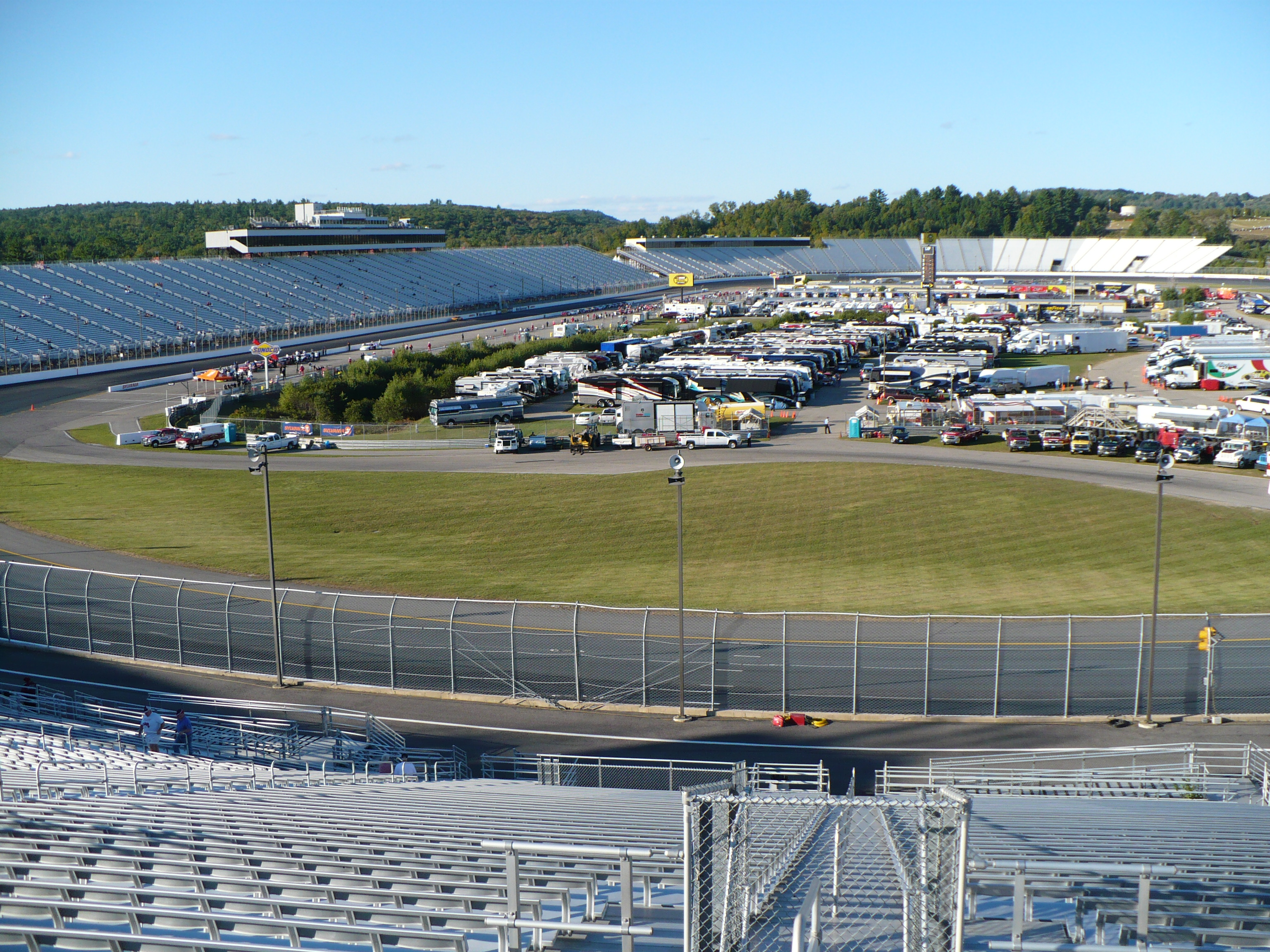 New Hampshire International Speedway